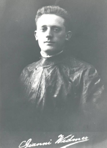 Ivan Vidmar-Gianni Widmer (1892 –1971), Slovene and Italian pilot